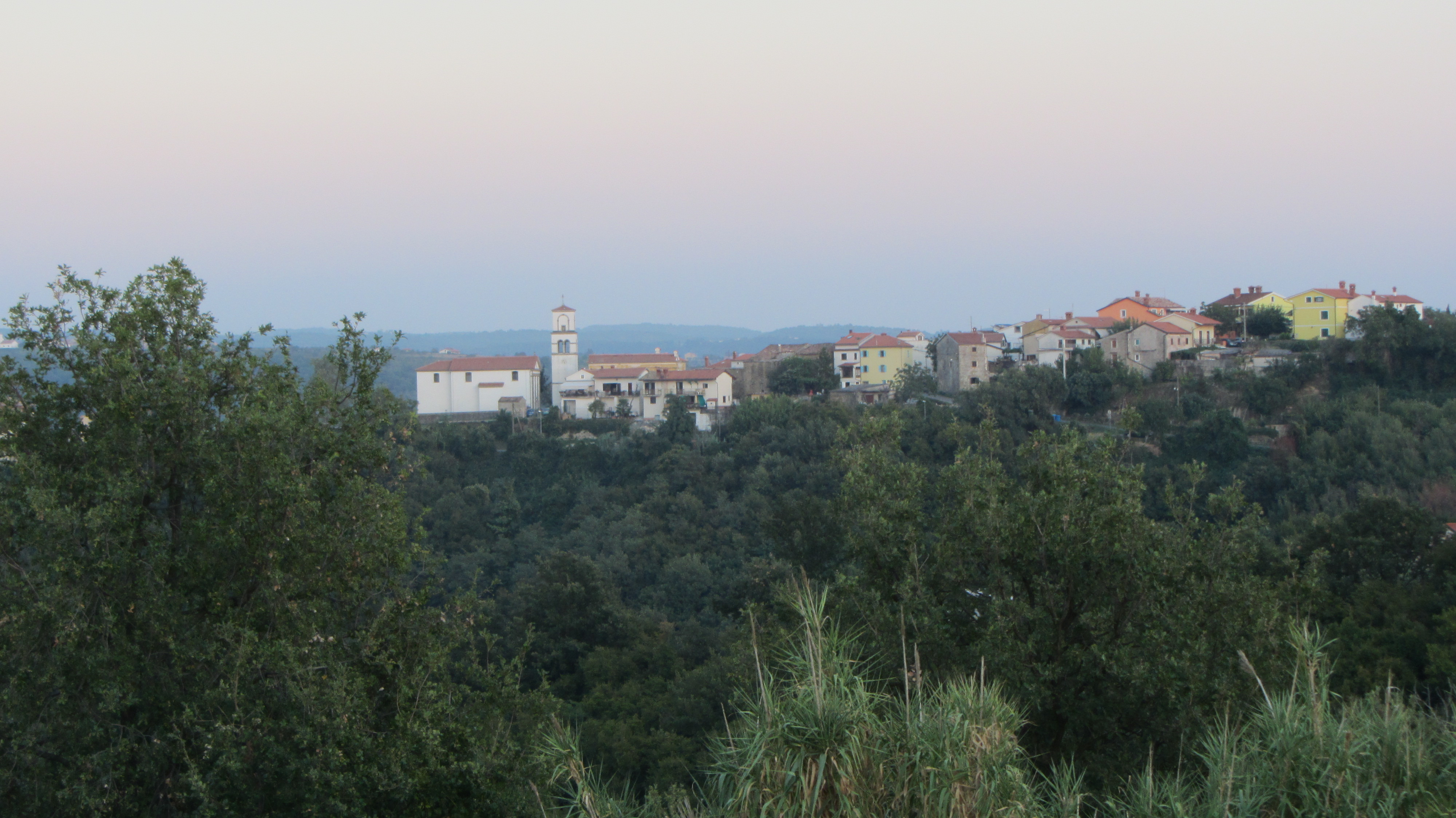 Area around Korte, near Portoroz